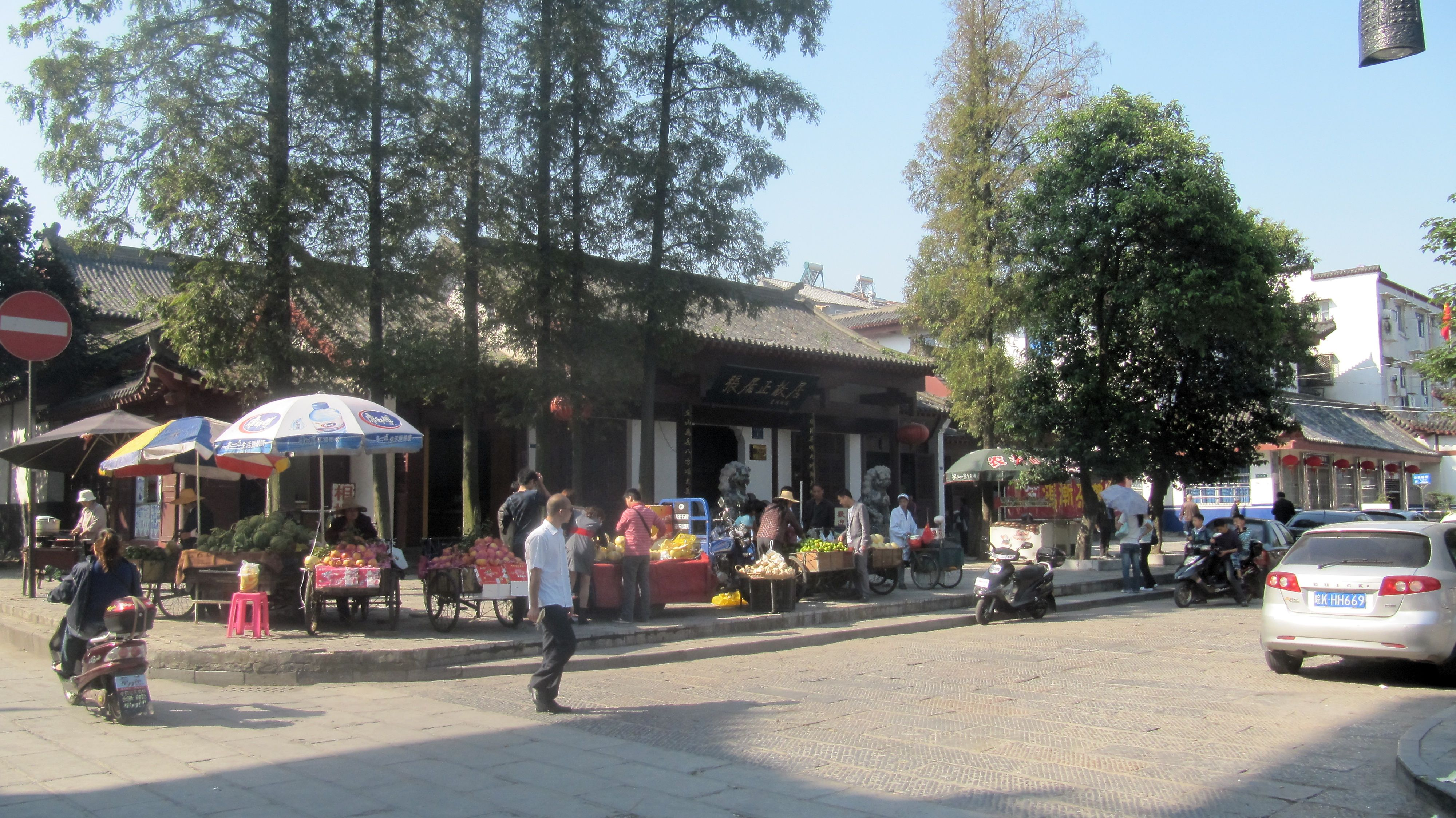 Zhāng Jūzhèng (張居正/张居正) former house at Jingzhou, Hubei province, China.